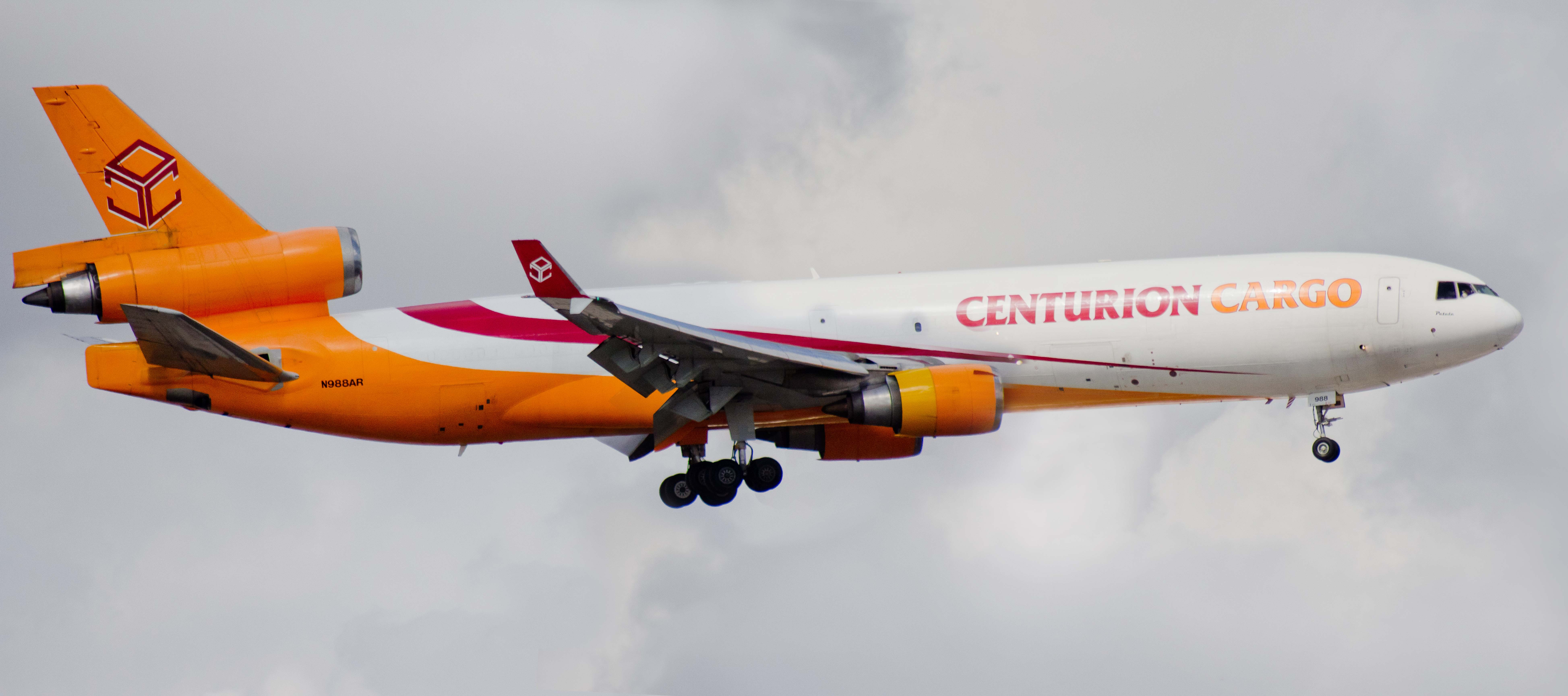 MD-11f Centurion Cargo Aircraft,After Take off Tail Number N988AR At Miami International Airport